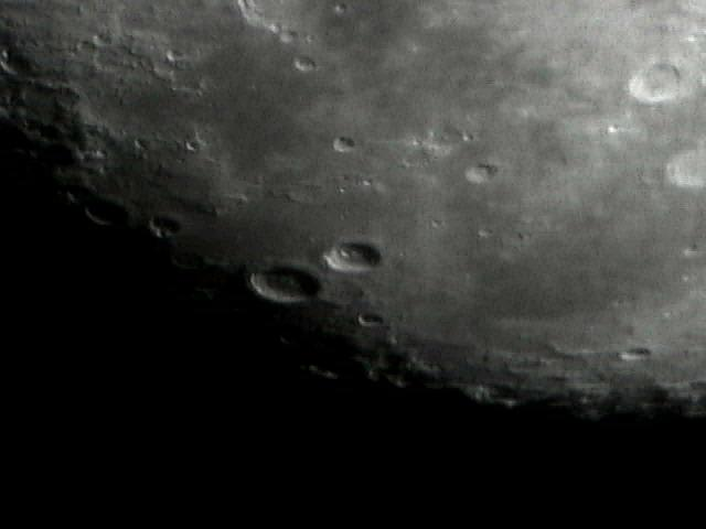 Here we have two large craters Atlas and Hercules on the North Eastern area on the Moon. Atlas is 87km and Hercules is 67km.